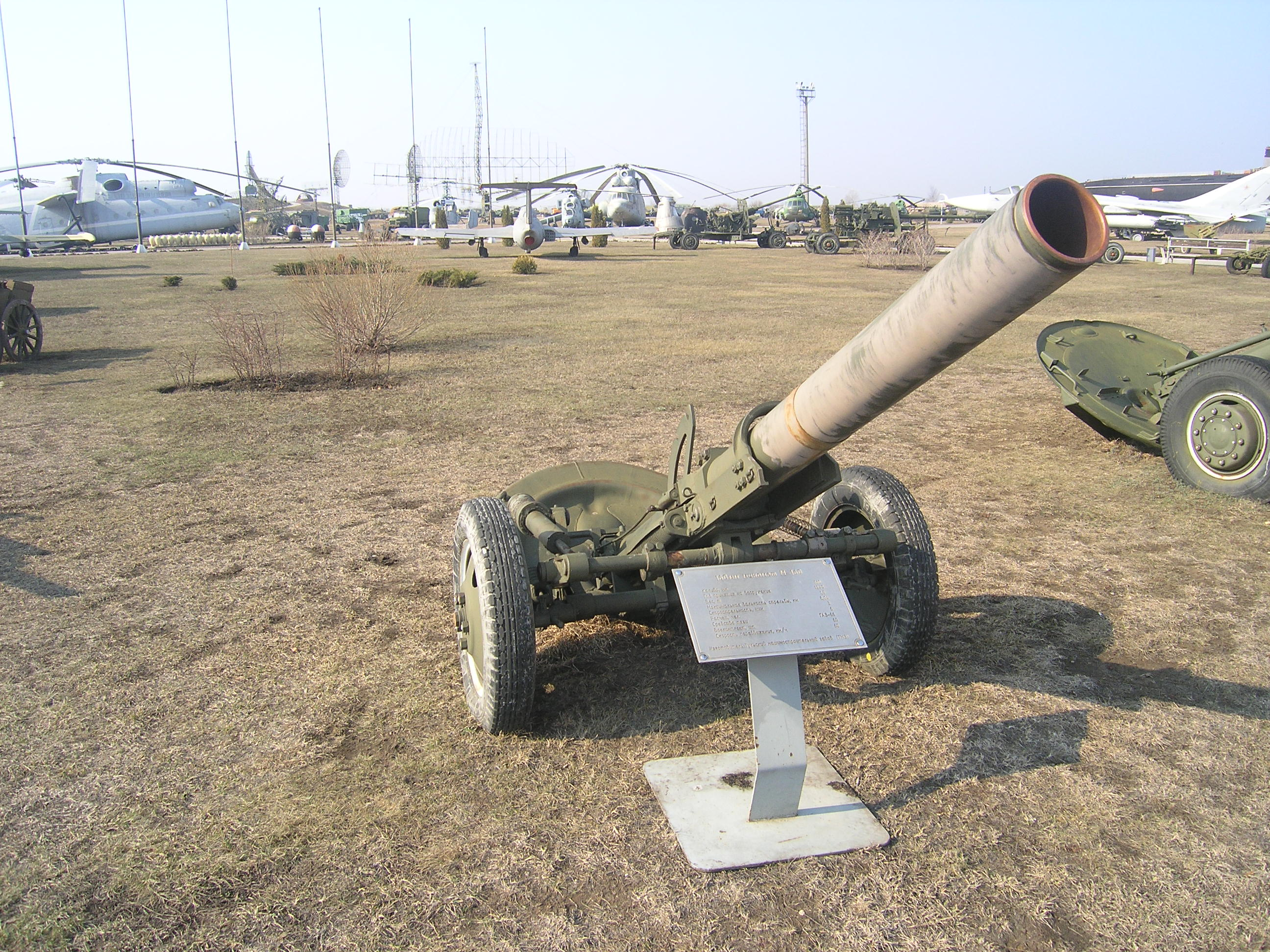 M-160 mortar in Techical museum Togliatti